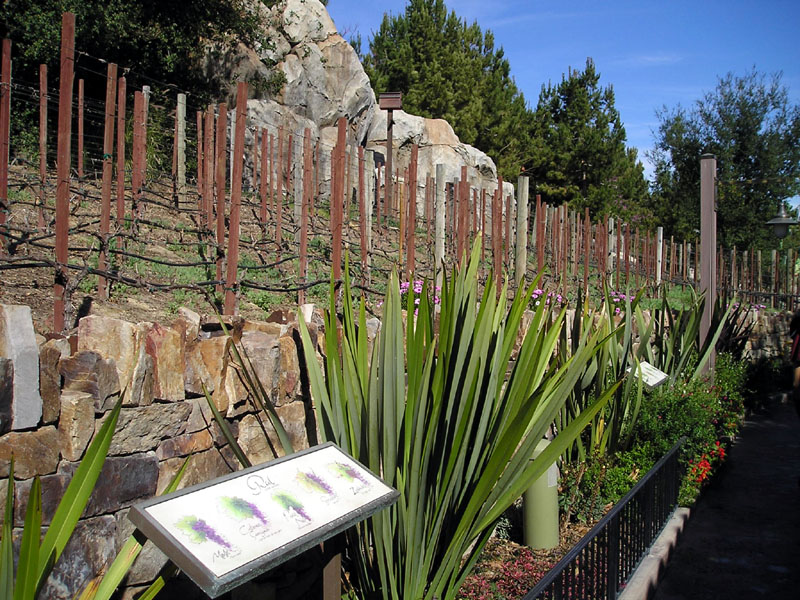 Golden Vine Winery vineyard at California Adventure by Ellen Levy Finch (user:elf) feb 06